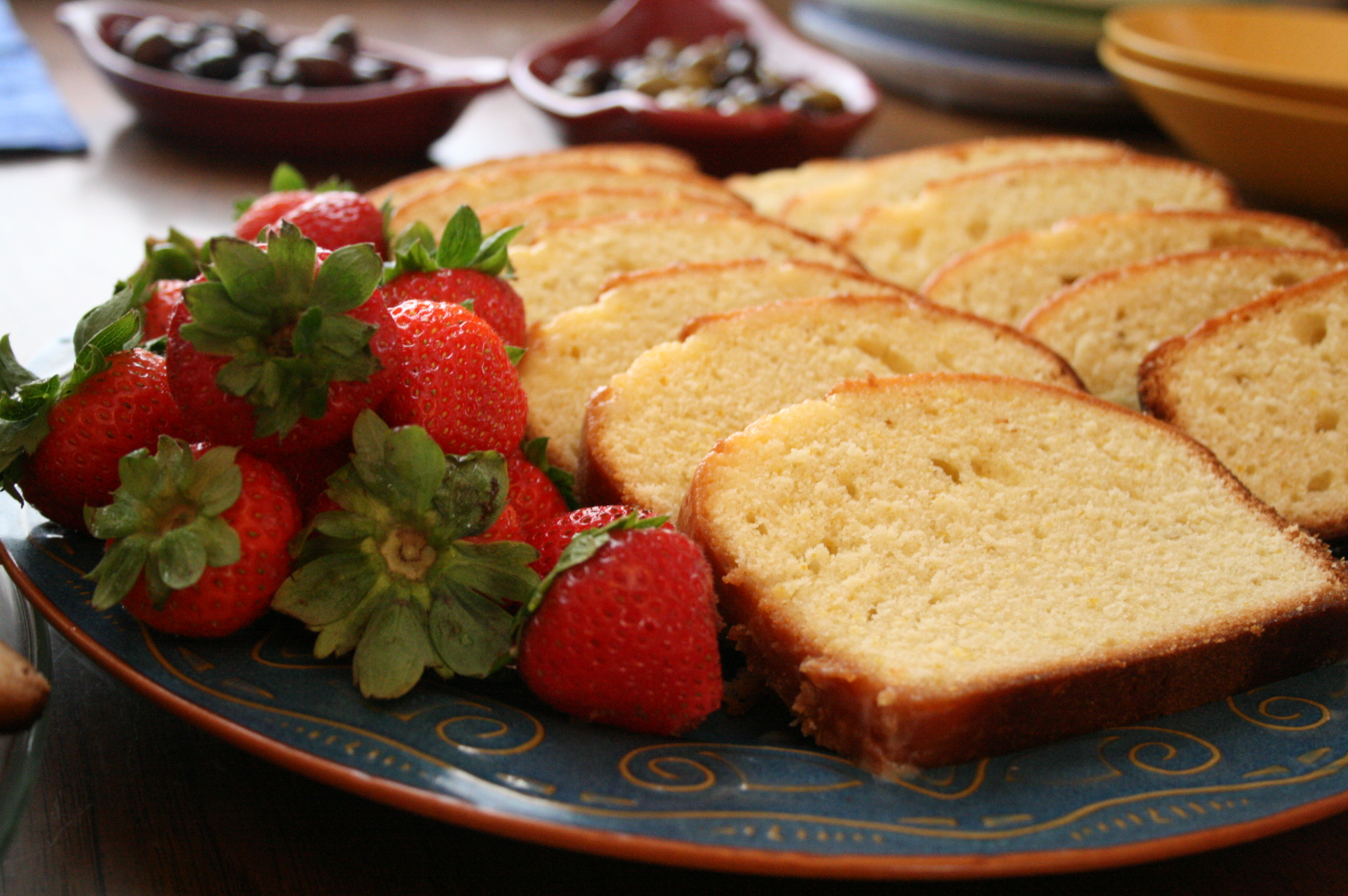 Strawberries and pound cake.